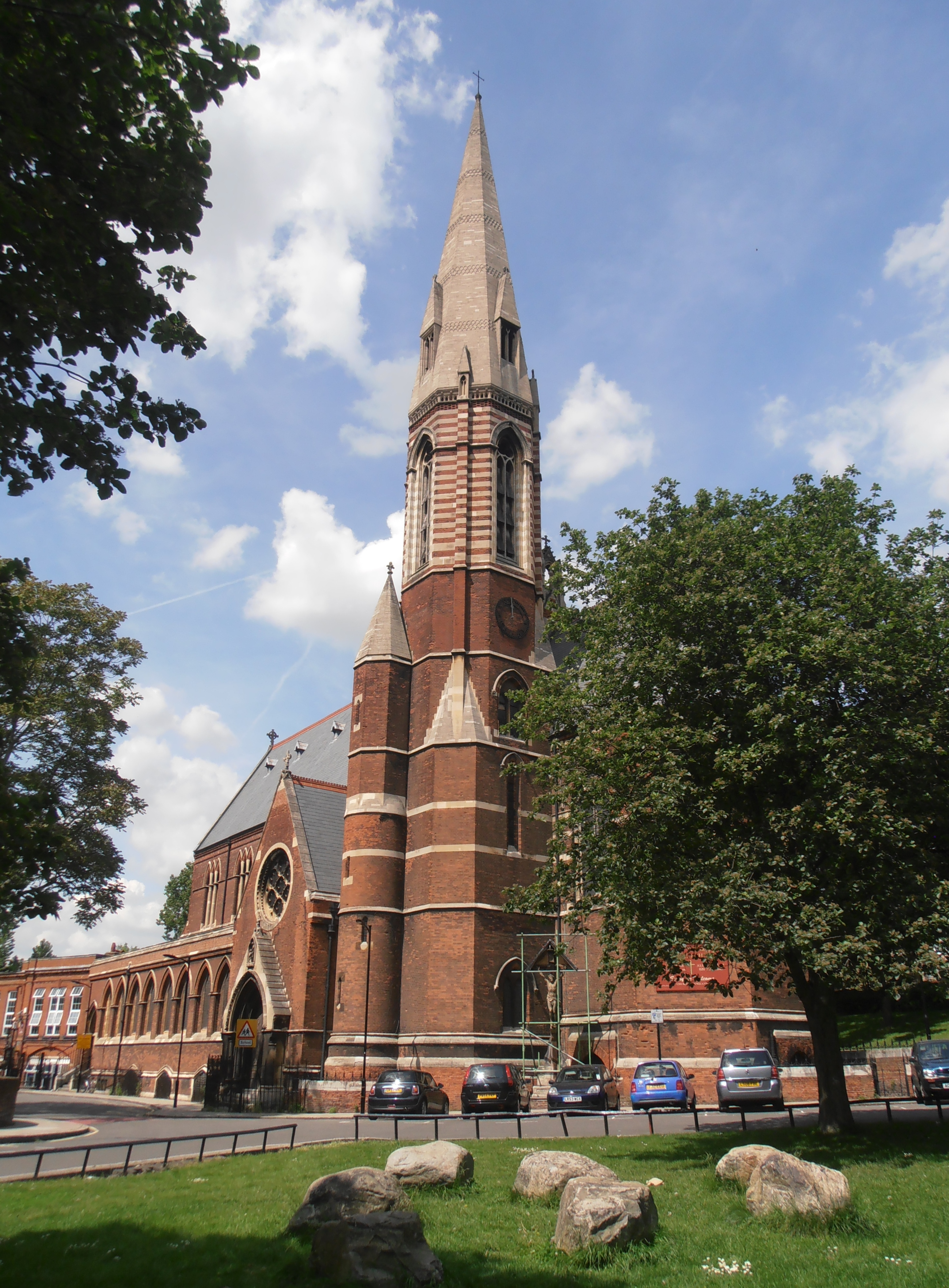 St Mary Magdalene parish church, Paddington, London, seen from the southeast